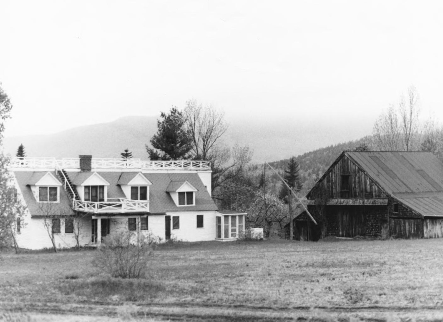 Joy Farm, Silver Lake (Carroll County, New Hampshire) cropped E. E. Cummings House This image or media file contains material based on a work of a National Park Service employee, created as part of that person's official duties. As a work of the U.S. federal government, such work is in the public domain. See the NPS website and NPS copyright policy for more information. Object location43° 54′ 56″ N, 71° 11′ 01″ W